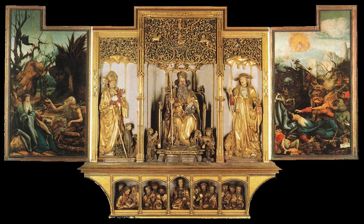 Matthias Grünewald, Isenheim Altarpiece, around 1515, Unterlinden Museum, Colmar.Saints Paul and Anthony in the Desert / sculptures / Temptation of Saint Anthony / Christ and the twelve apostles.